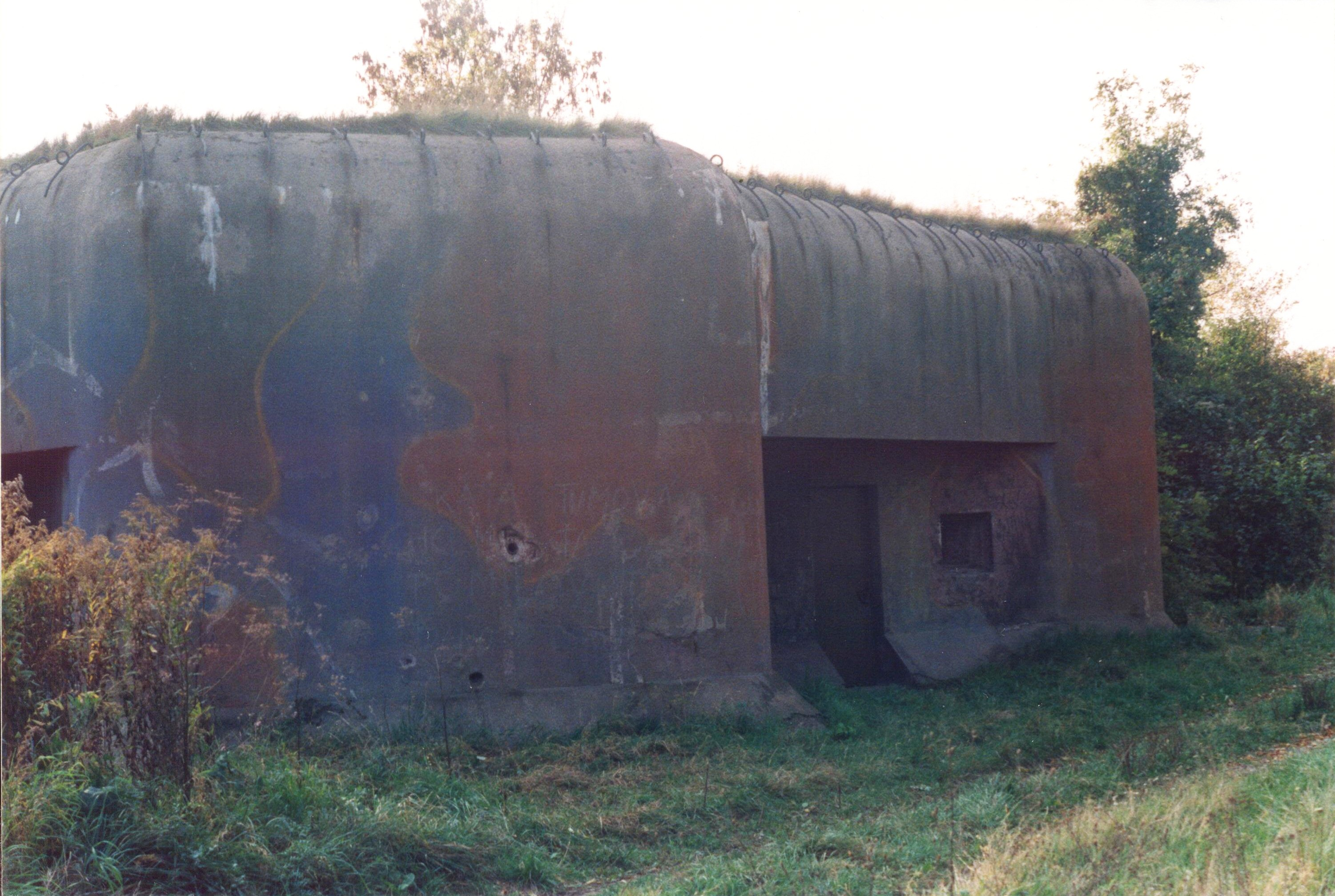 B-S 4 Lány infantry casemate, Bratislava, Slovakia